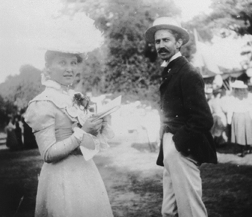 American author Stephen Crane and a woman thought by some researchers to be his common-law life, Cora, at the benefit party held in Brede Rectory Gardens, August 23, 1899 (Source: Lillian Gilkes, Cora Crane: A Biography of Mrs. Stephen Crane, Bloomington: Indiana University Press, 1960). Others, however, believe the woman depicted is not Cora (Source: Stanley Wertheim, A Stephen Crane Encyclopedia,Greenwood Publishing Group, 1997).